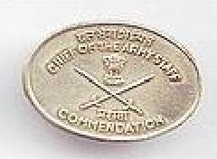 Chief of Army Staff Commendation Card - India